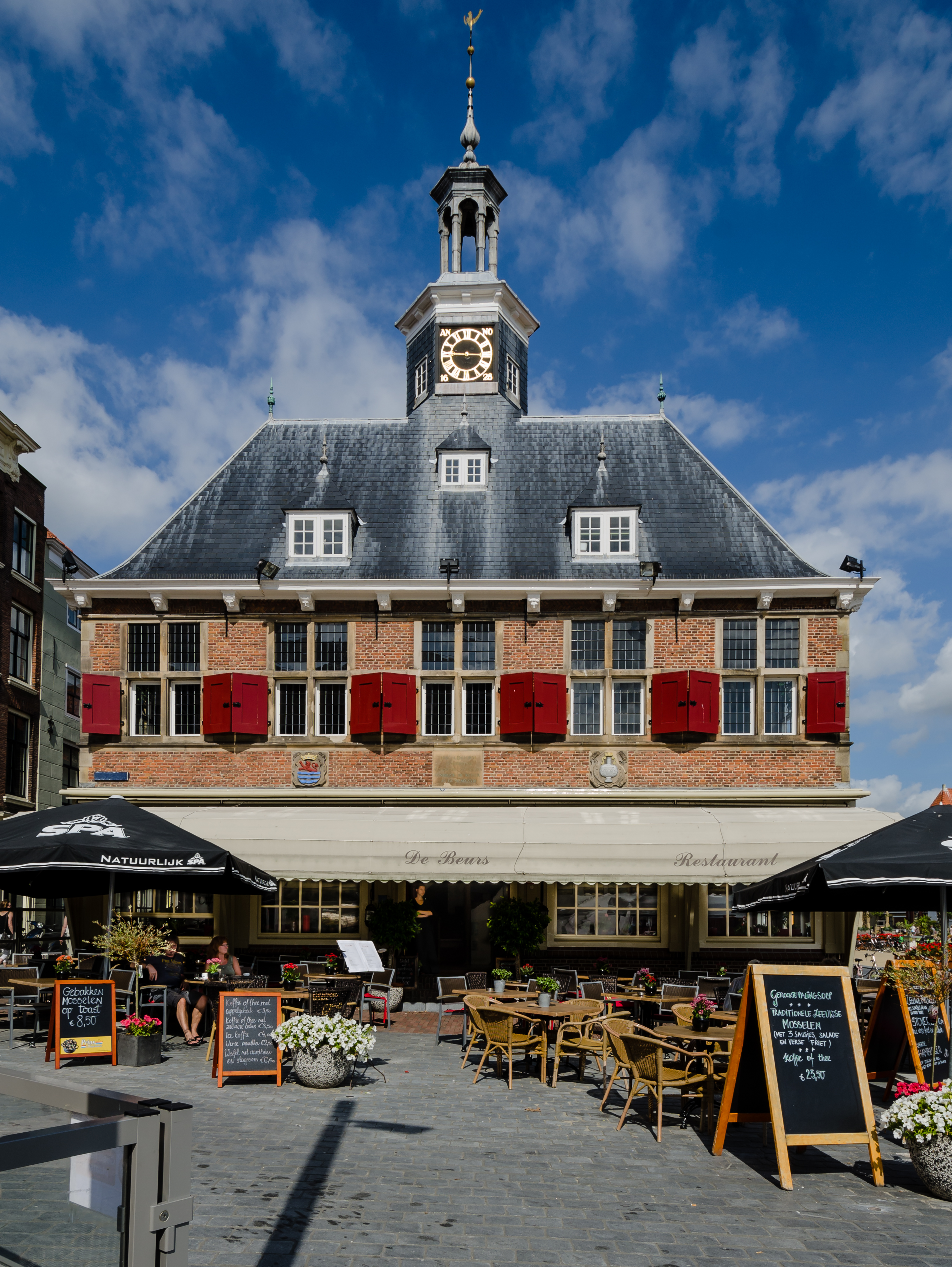 Old stock exchange of Vlissingen